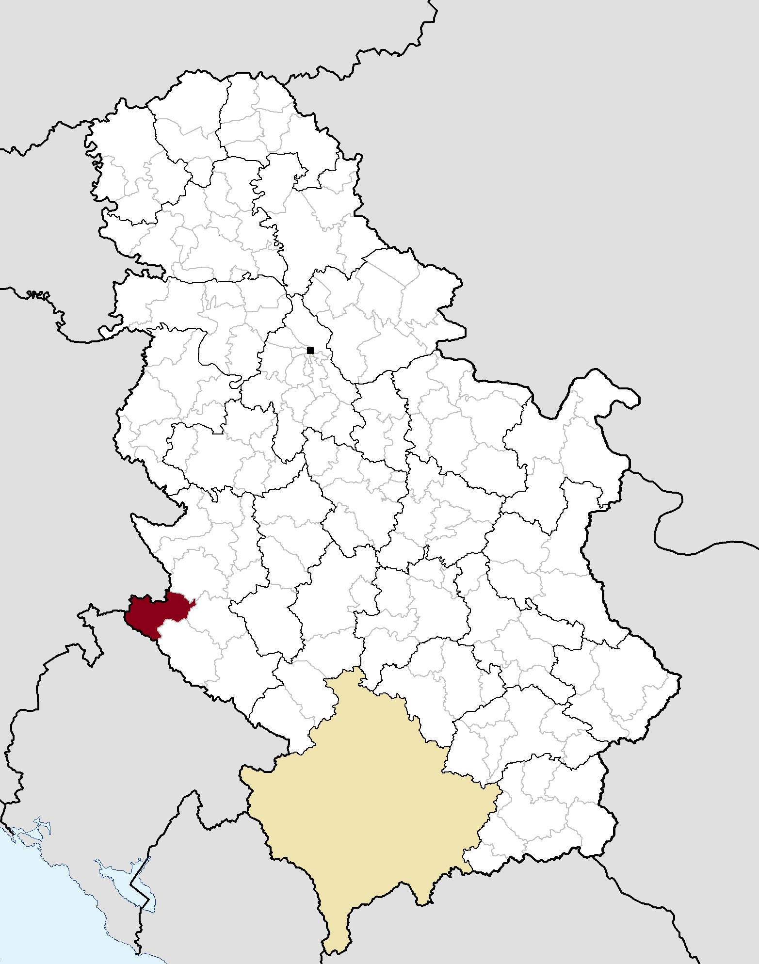 Municipal location in Serbia